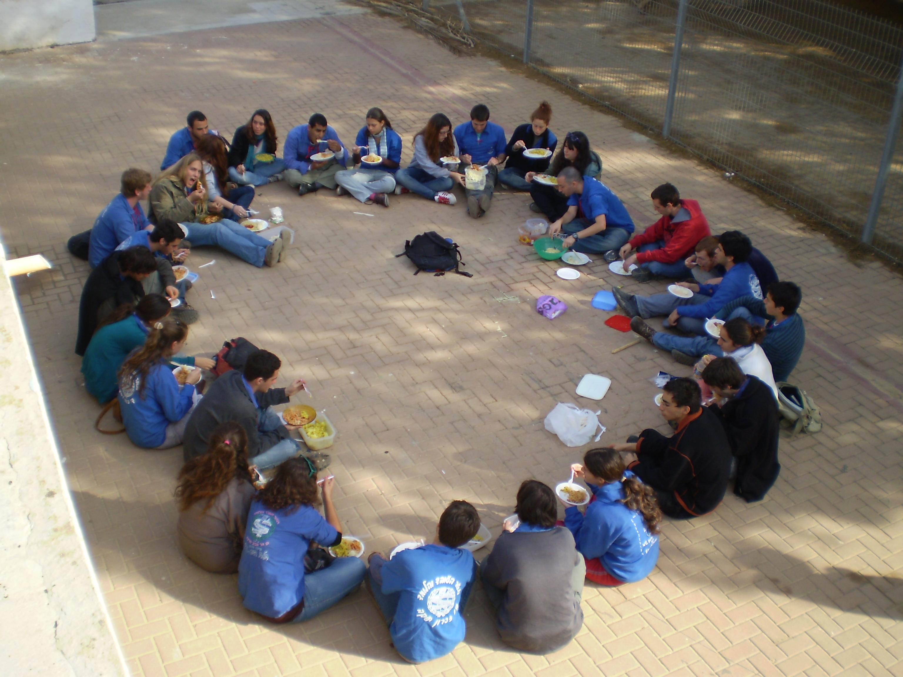 18 years old guides ("madrihim" in Hebrow) in the Israeli " HaNoar HaOved VeHaLomed" yoth-movment, having lunch, sitting in a circle. Circels culture.